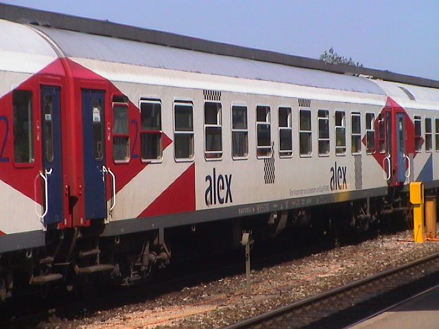 Car of the railway company Alex